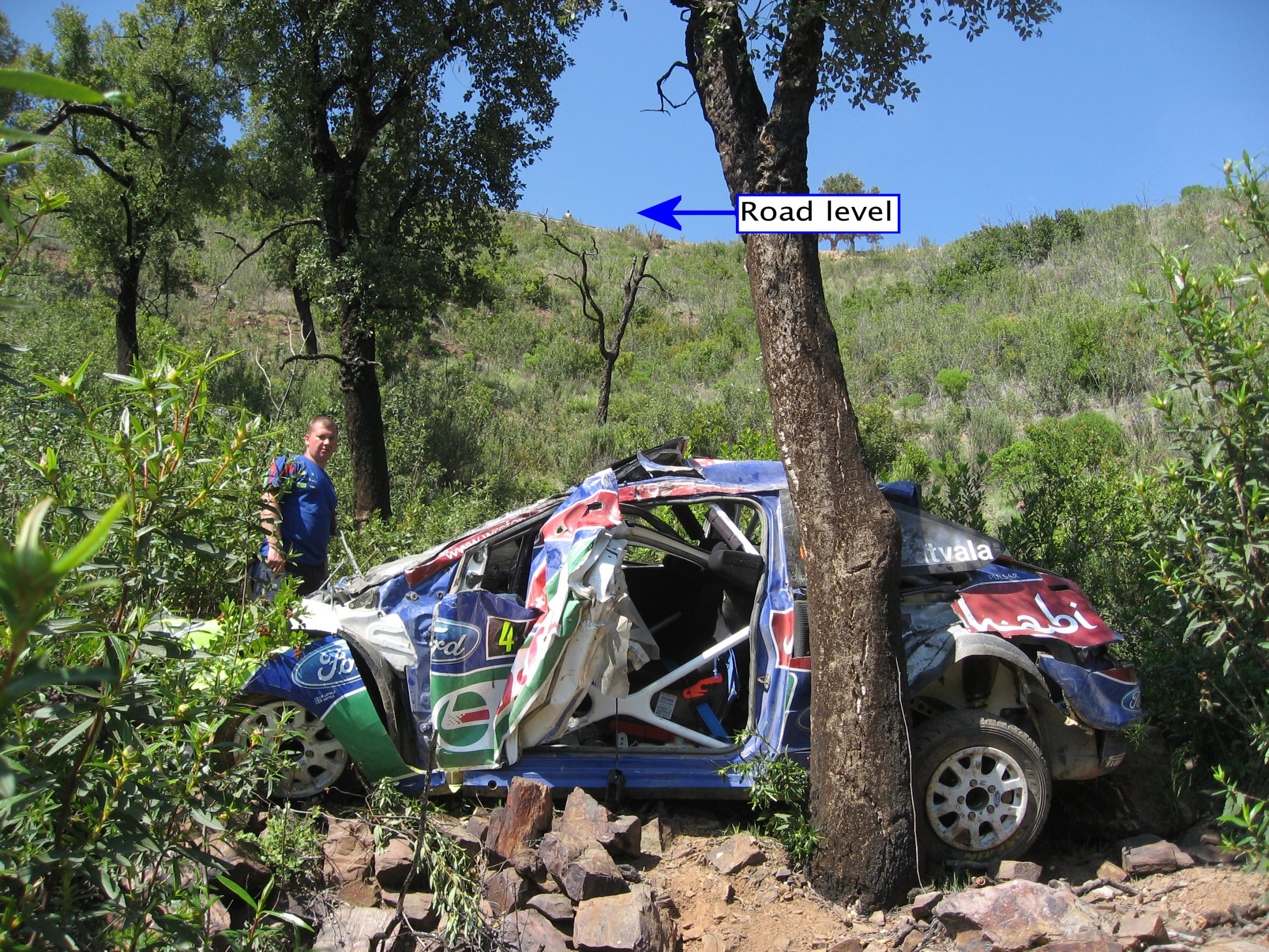 Jari-Matti Latvala's Ford Focus RS WRC, after crashing out of the 2009 Rally de Portugal. Latvala and co-driver Miikka Anttila rolled 200 meters down a hillside.